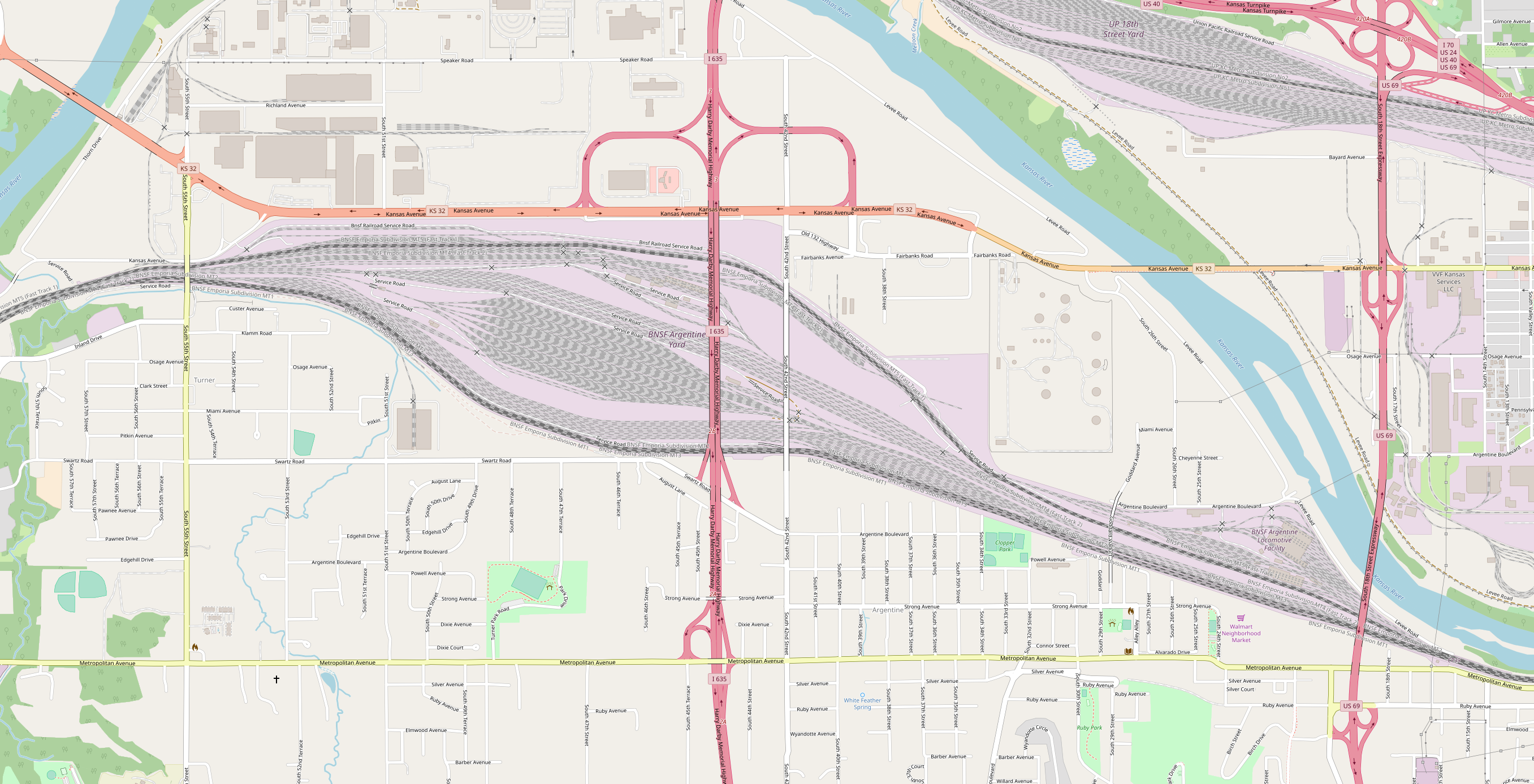 Argentine Yard (BNSF Railway) in Kansas City, Kansas